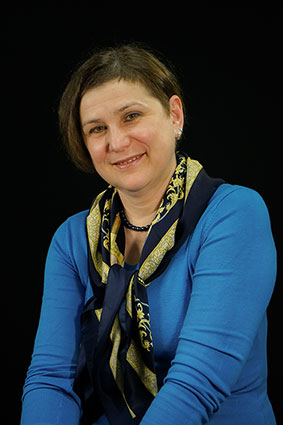 Елена Валентиновна Ерофеева, зав. кафедрой теоретического и прикладного языкознания Пермского университета